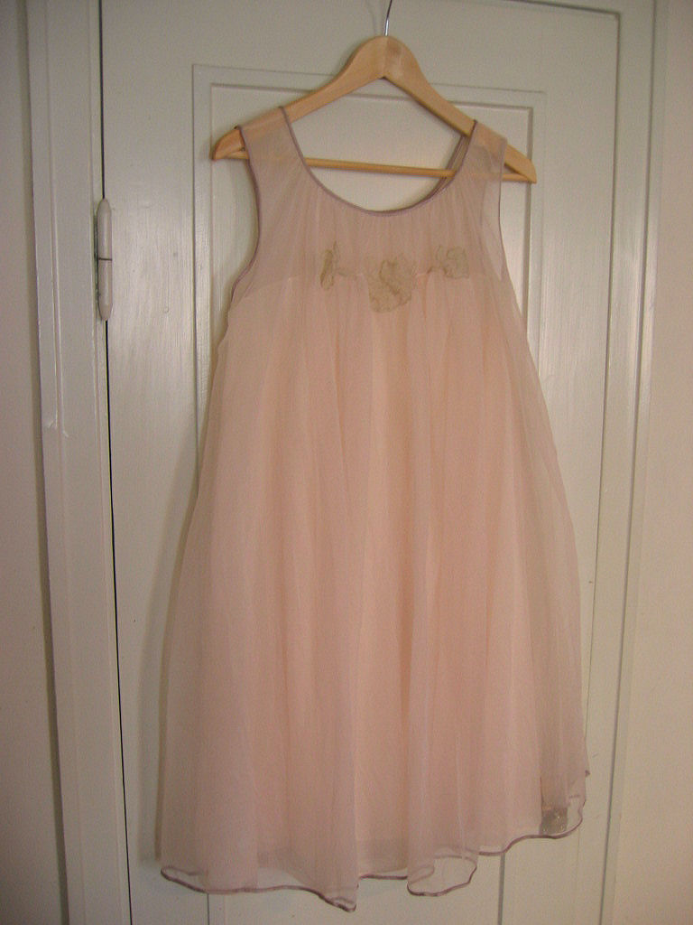 Summary I photographed this nightie